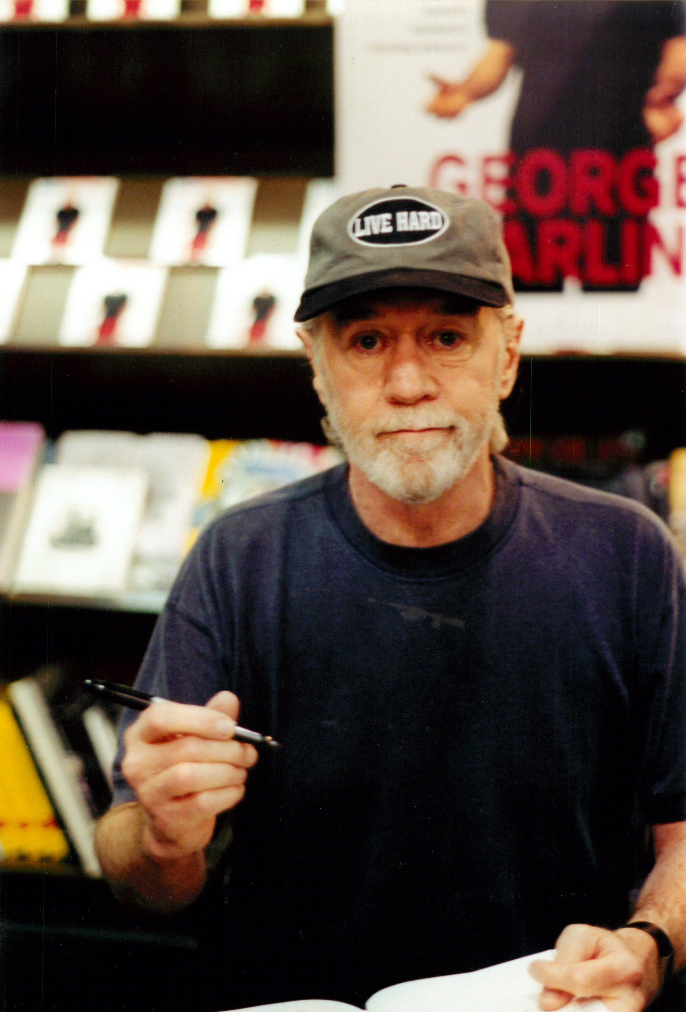 George Carlin at a book signing for Brain Droppings in New York City at Barnes and Noble